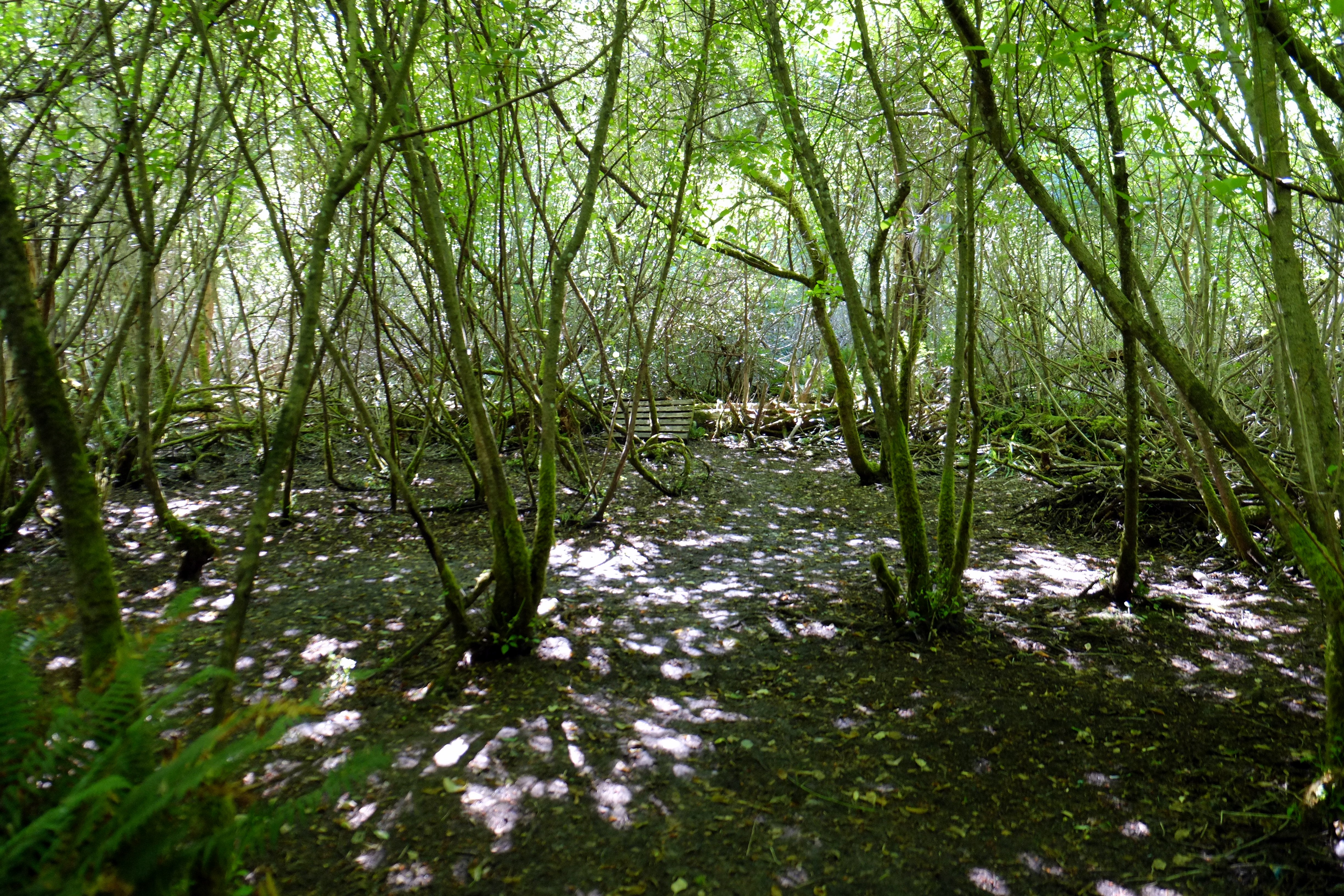 Afternoon walk in Mystic Vale